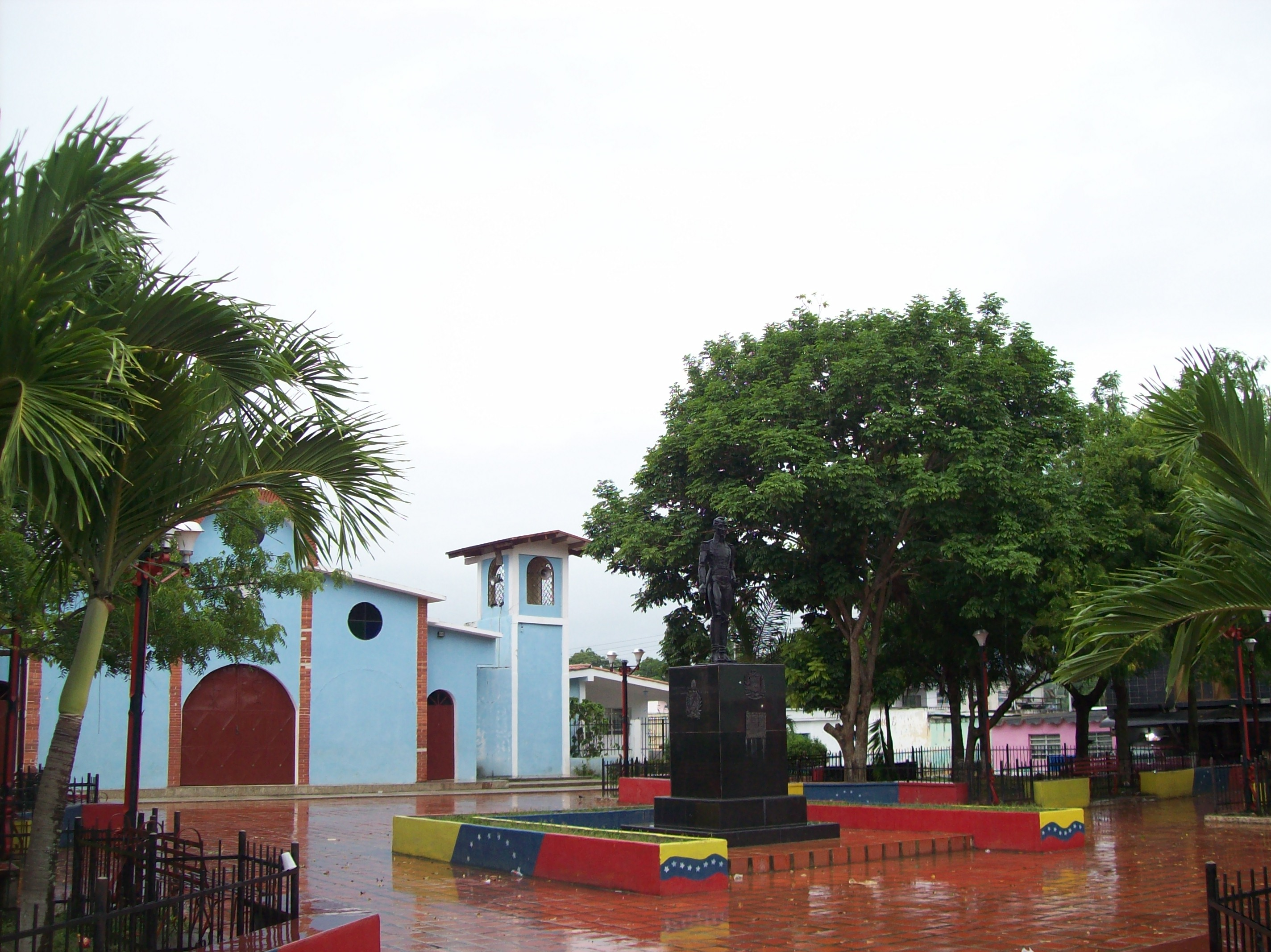 Bolívar square of Yumare, Capital of the Municipality Manuel Monge, Yaracuy state. Venezuela